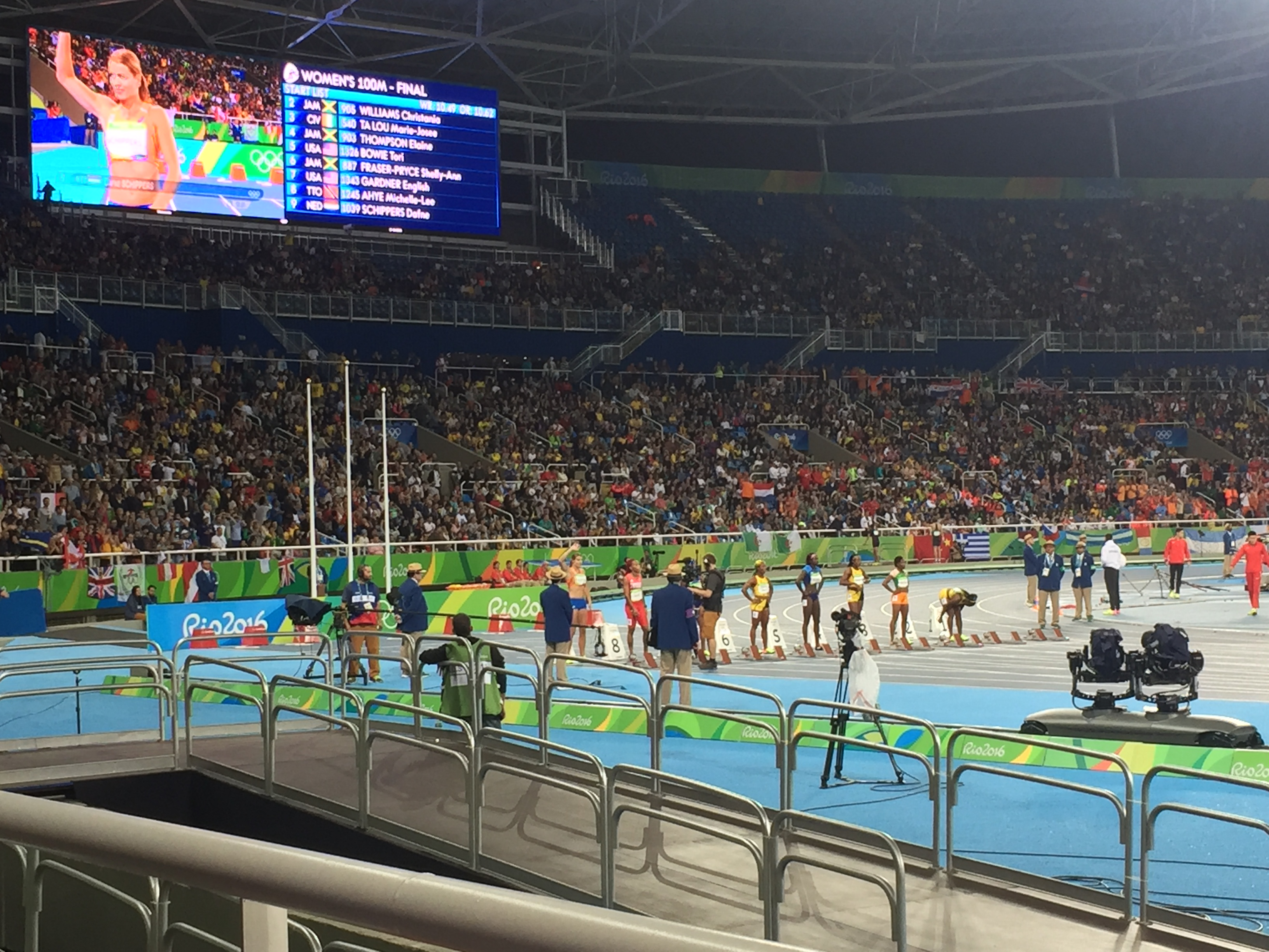 Rio 2016 Summer Olympics